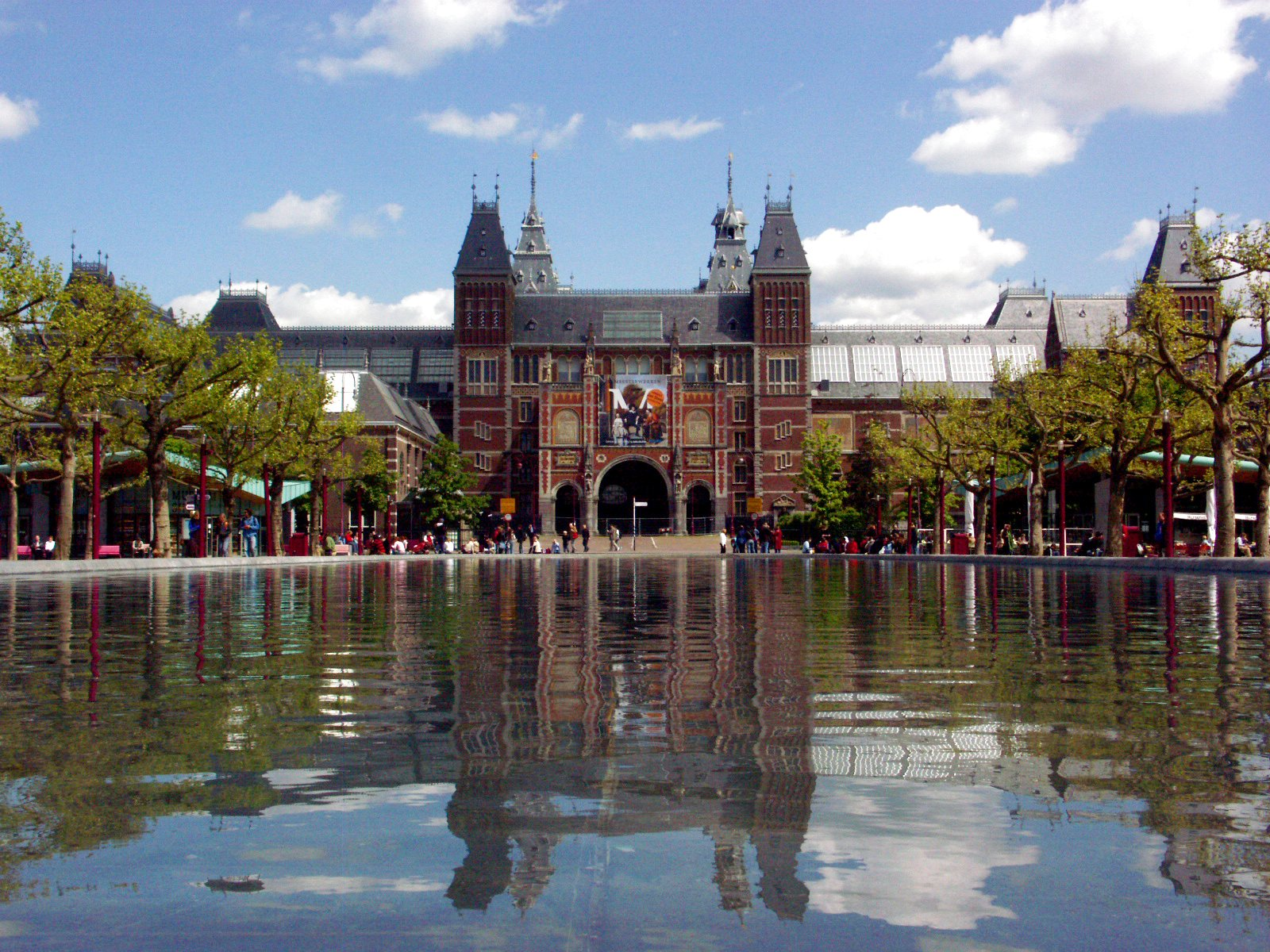 Rijksmuseum Native nameRijksmuseum AmsterdamLocationAmsterdamCoordinates52° 21′ 35.89″ N, 4° 53′ 07.17″ E Established1800Web pagerijksmuseum.nlAuthority control : Q190804 VIAF: 152356082 ISNI: 0000 0001 2196 1335 ULAN: 500246547 LCCN: n79007489 NLA: 36126463 WorldCat institution QS:P195,Q190804 Gmach Rijksmuseum, Amsterdam